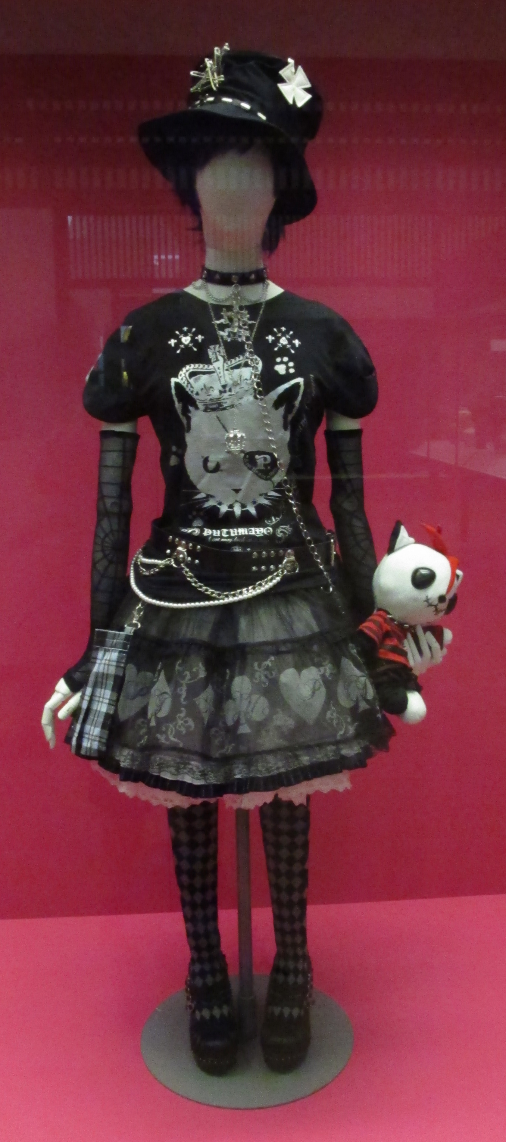 Punk Lolita fashion on display at the Victoria and Albert Museum, London.